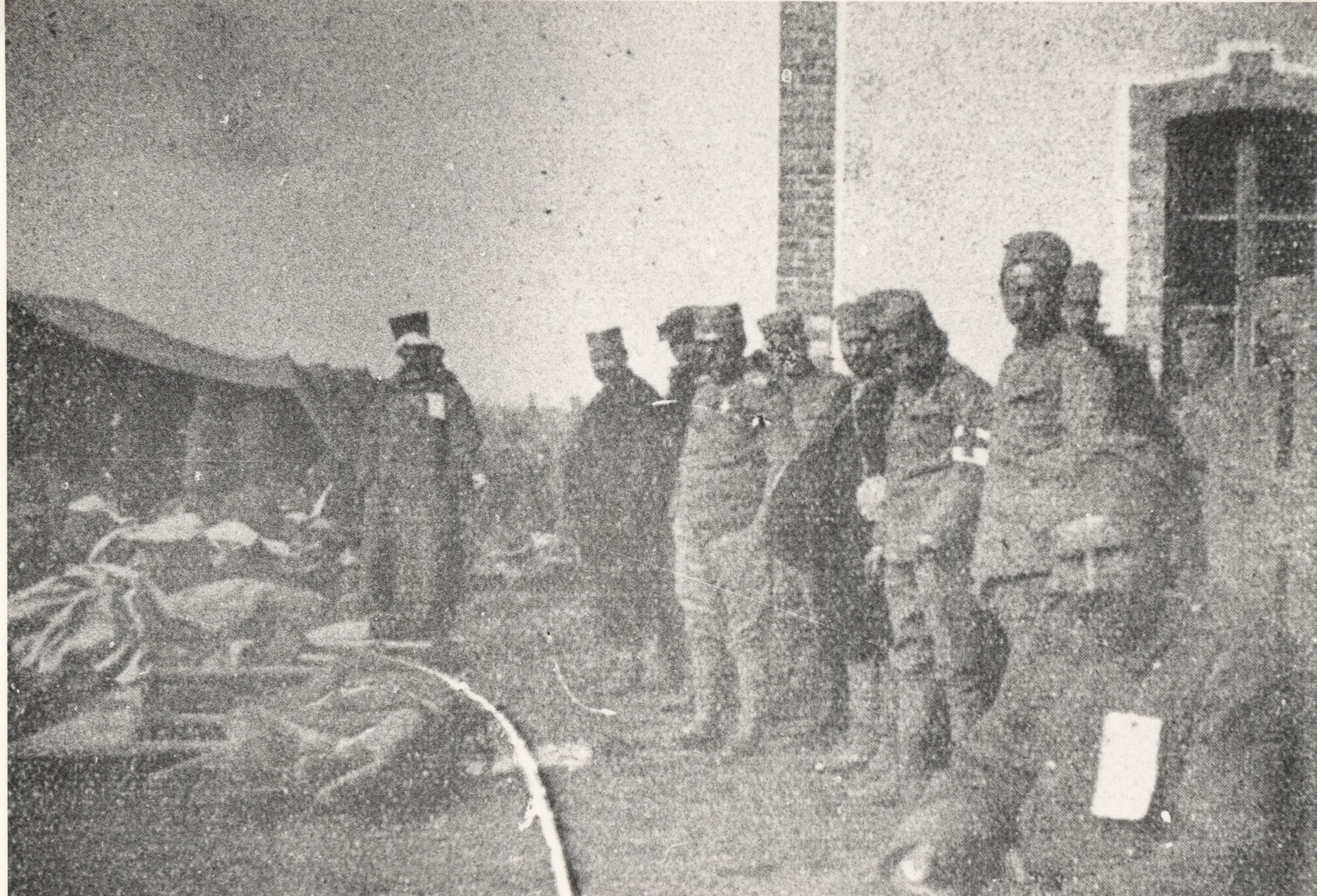 Hospital near the village Tabanovce, during fighting in Kumanovo, 1912. This media file is produced by Wikipedian in Residence in Category:Wikipedian in Residence at DARM in 2016.